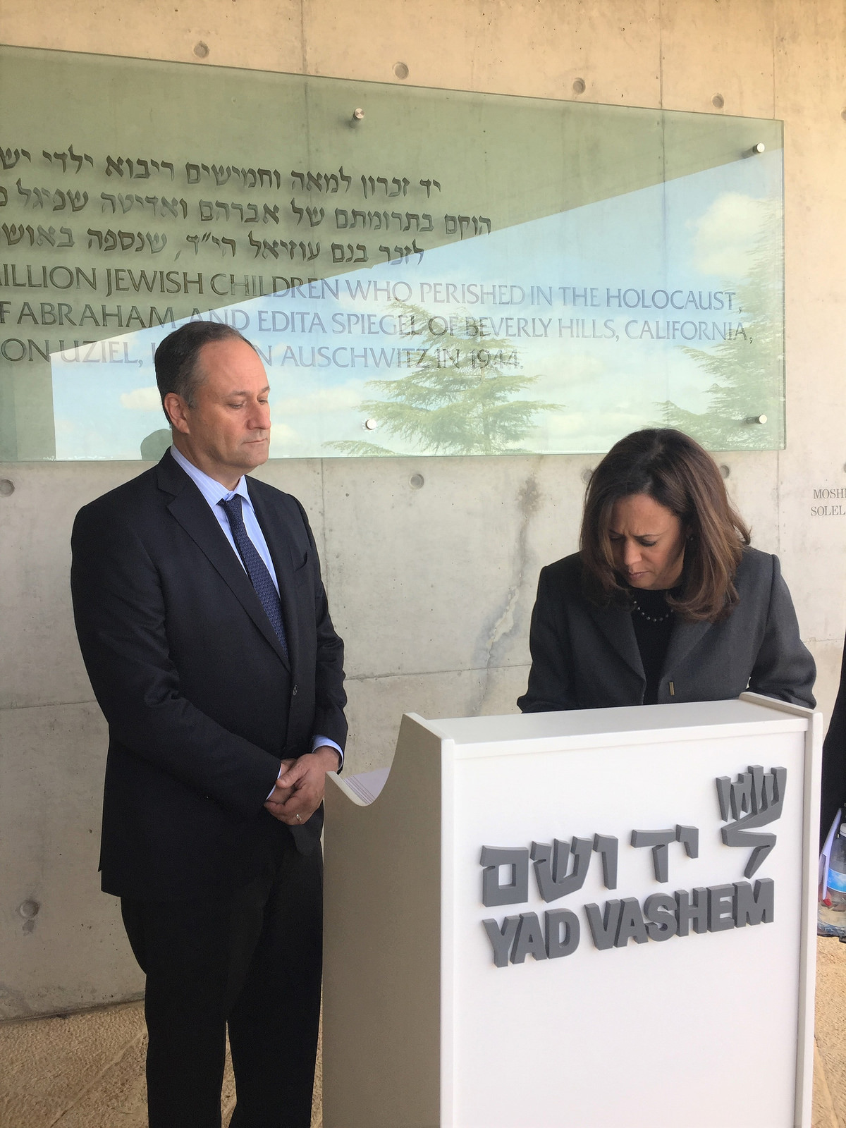 Senator Harris signing the guest book at Yad Vashem with her husband, Doug